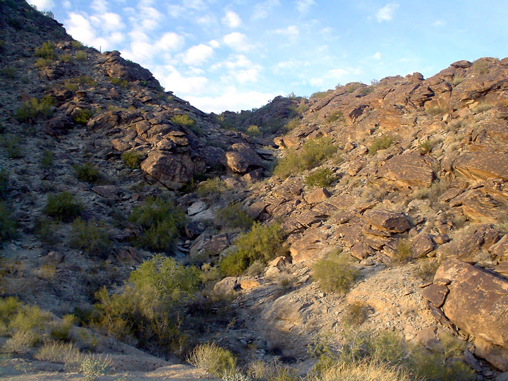 South Mountain Park, January 2004